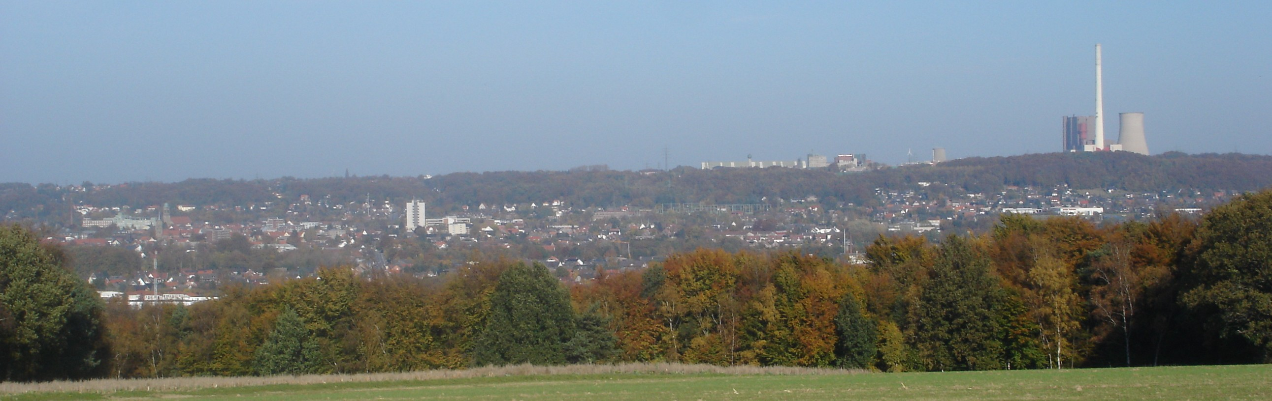 City-panorama of the city of Ibbenbüren, taken from the Dörenther Berg